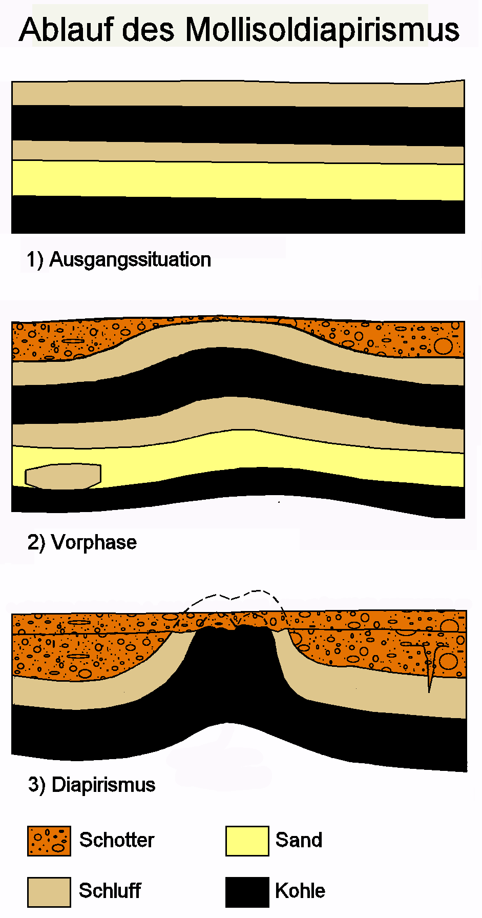 Schematic description of the Mollisoldiapirism after Lothar Eißmann: Mollisoldiapirismus. Zeitschrift für Angewandte Geologie 24 (3), 1978, pp. 130–138 (p. 134) and under using of Matthias Thomae and Carsten Sommerwerk: Zur Entstehung der Fundstätte Neumark-Nord (Geiseltal). In: Harald Meller (ed.): Elefantenreich - Eine Fossilwelt in Europa. Halle/Saale 2010, pp. 39–44 (p. 42), reworked